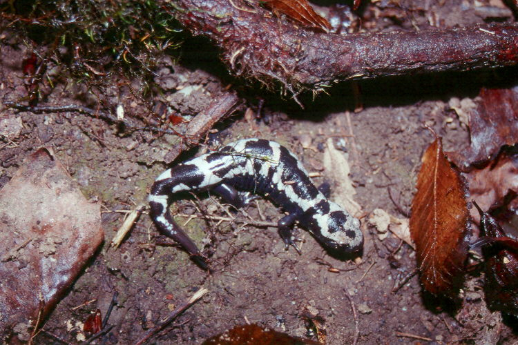 Marbled salamander (Ambystoma opacum)